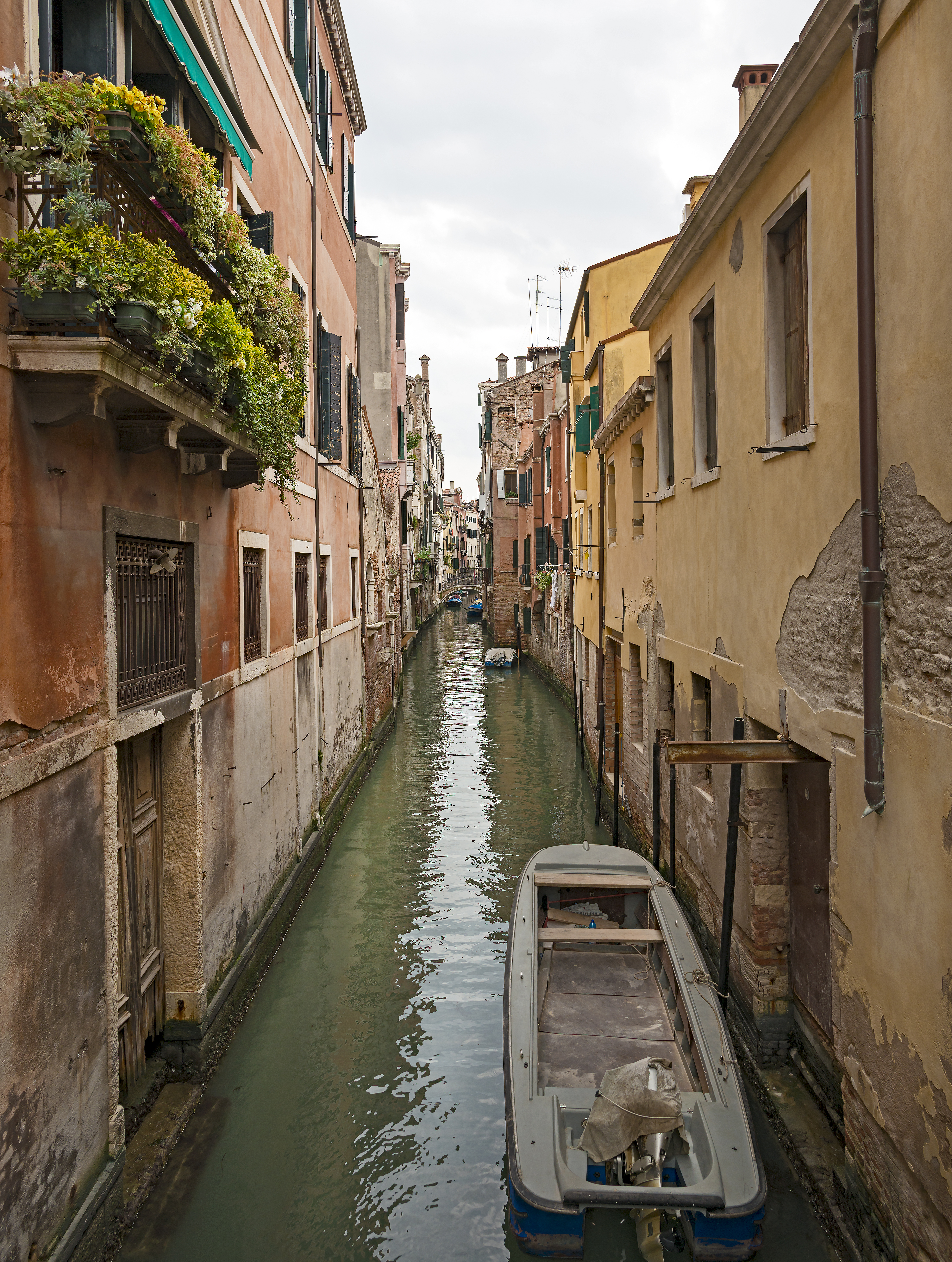 Rio delle Due Torri Venice. View from Ponte del Ràvano to the Ponte Sta Maria Mater Domini.